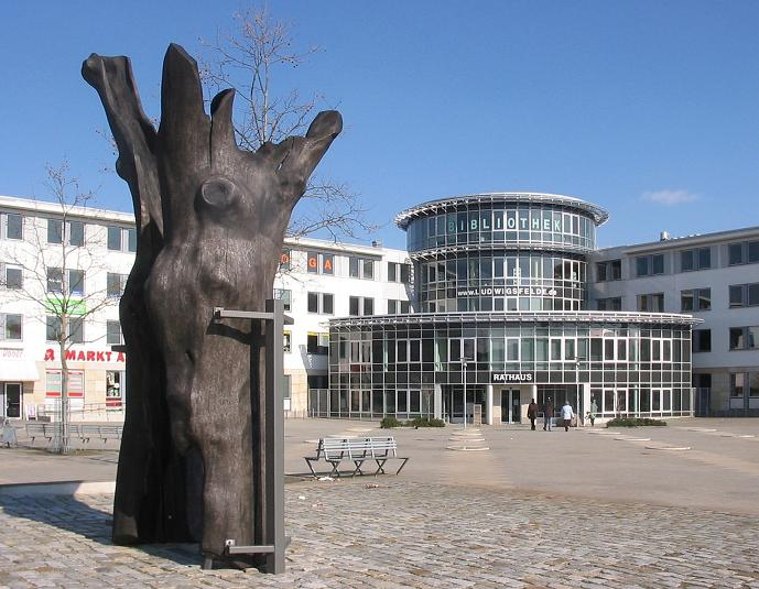 Townhall in Ludwigsfelde, inaugurated in 1996. In the foreground the sculpture Stundeneiche (german for: hoursoak), created by the artist Franziska Uhl in 2005. Ludwigsfelde is a town in the district Teltow-Fläming, state Brandenburg, Germany. See also